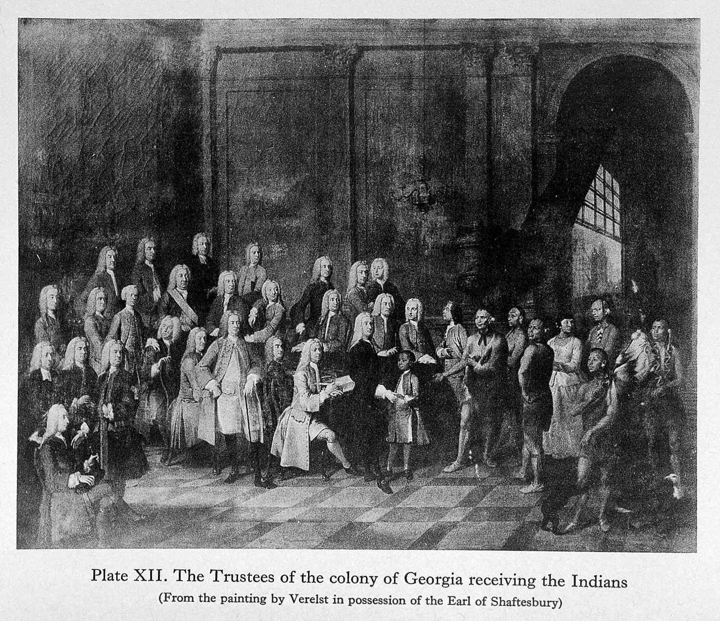 S. Hales standing on the extreme left, behind chair, and the Trustees of the colony of Georgia receiving the Indians General Collections Keywords: Stephen Hales